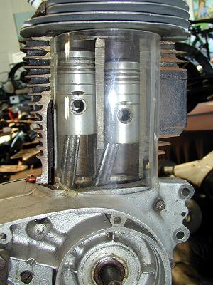 Puch motor, with split-single double cylinder